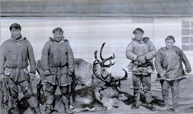 Siberian herders at Teller Reindeer Station. Photo by S. J. Call, U.S.R.M.